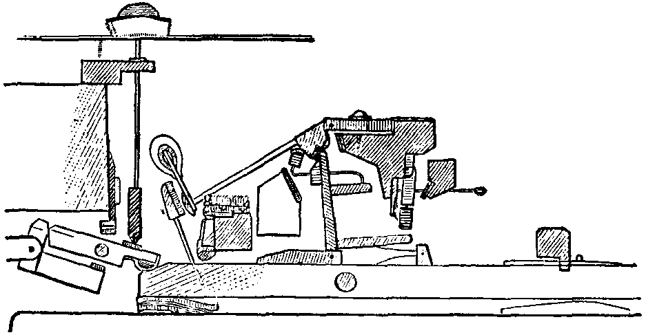 Collard's grand piano action of 1884. English action, with reversed hopper and contrivance for repetition added.